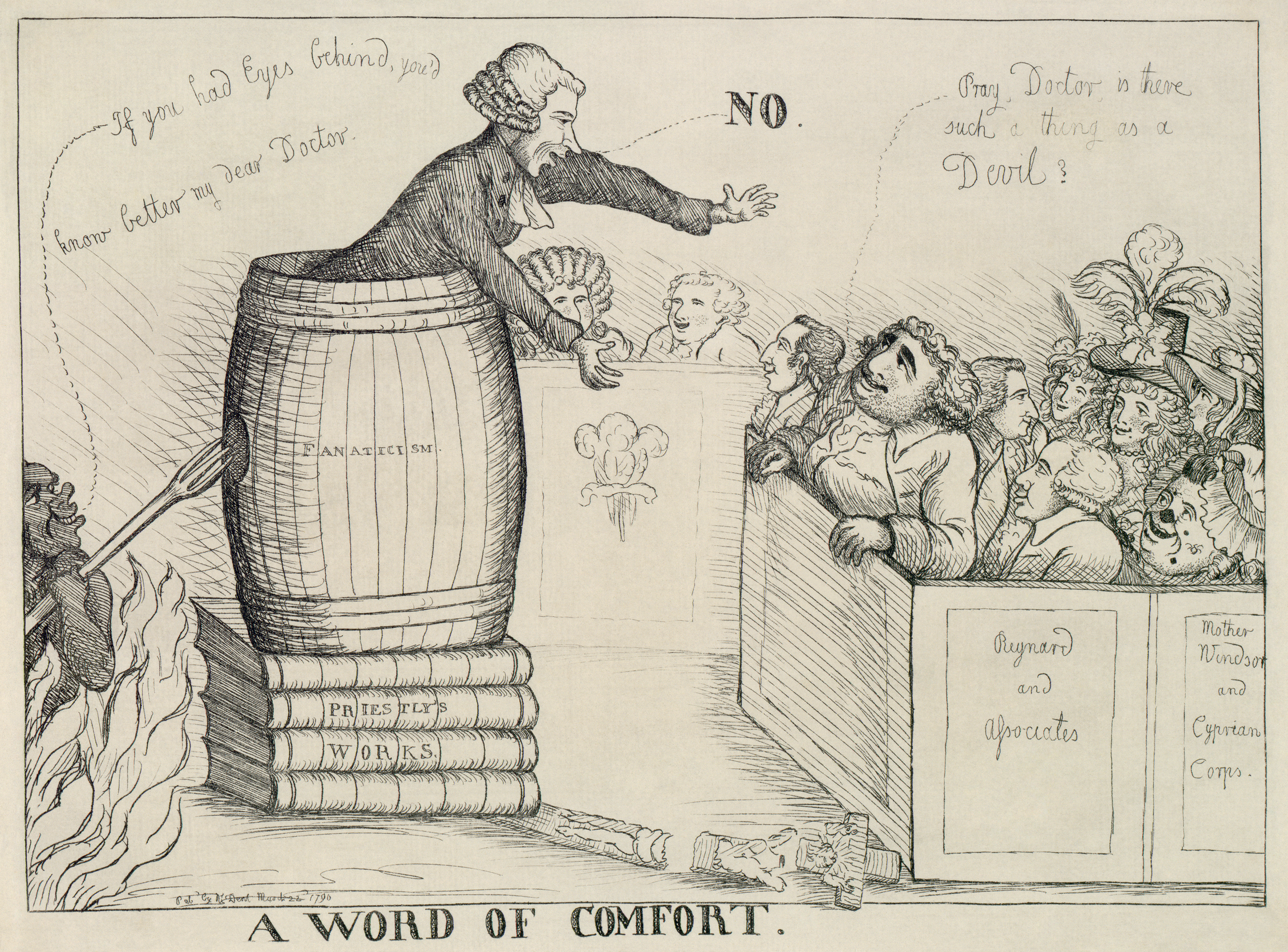 "A British satire on the efforts of Charles James Fox to get the Test and Corporation Acts repealed. Joseph Priestley, preaching, speaks for the concerns of the clergy, stating their opposition to "Reynard and Associates" (Fox, Richard Brinsley Sheridan, John Townshend, and another man, possibly William Windham). Fox asks, "Pray, Doctor is there such a thing as a Devil?" to which Priestley responds with a resounding "NO." The Devil, standing amid flames, is about to skewer Priestley. The Test and Corporation Acts required membership in the Church of England, as well as other religious and civil obligations, for anyone seeking public office. In a touch of irony, the Prince of Wales (George IV) and Maria Fitzherbert, joined in an illegal marriage, sit in a pew on Priestley's left, facing the viewer. That Priestley's "NO" is printed in the same type as the title "A WORD OF COMFORT" suggests a play on words." Etching.